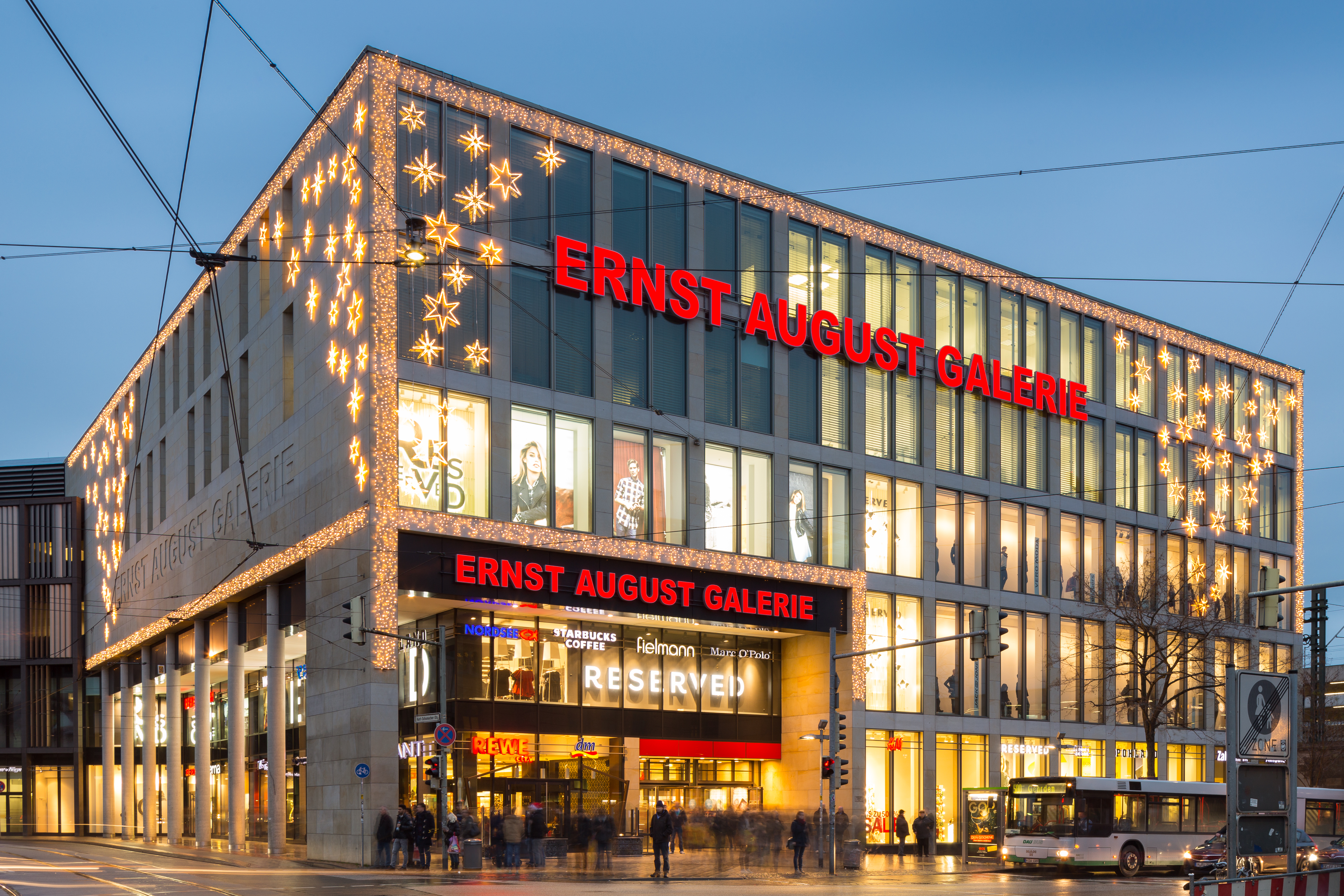 Shopping mall "Ernst August Galerie" located at Ernst-August-Platz square close to Hannover main station in Mitte district of Hannover, Germany.